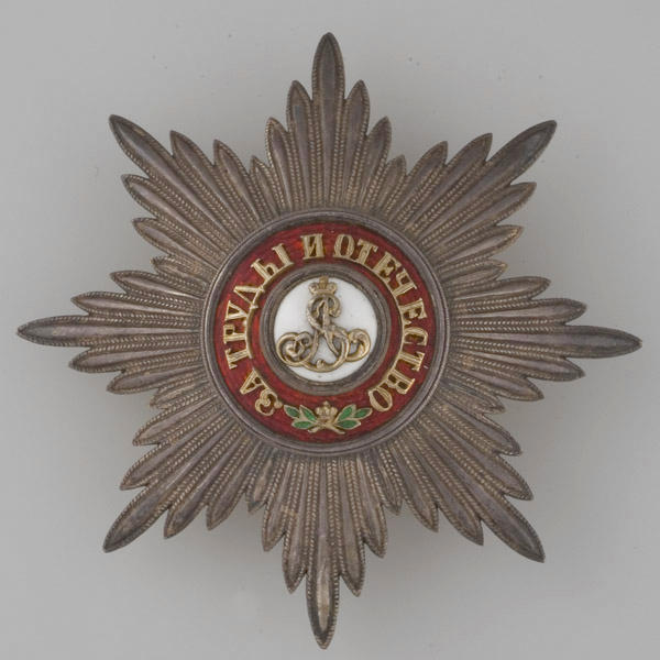 Cross version from silver-thread embroidery on white leather of the Order of Saint Alexander Nevsky, front few, edition ca. 1840.